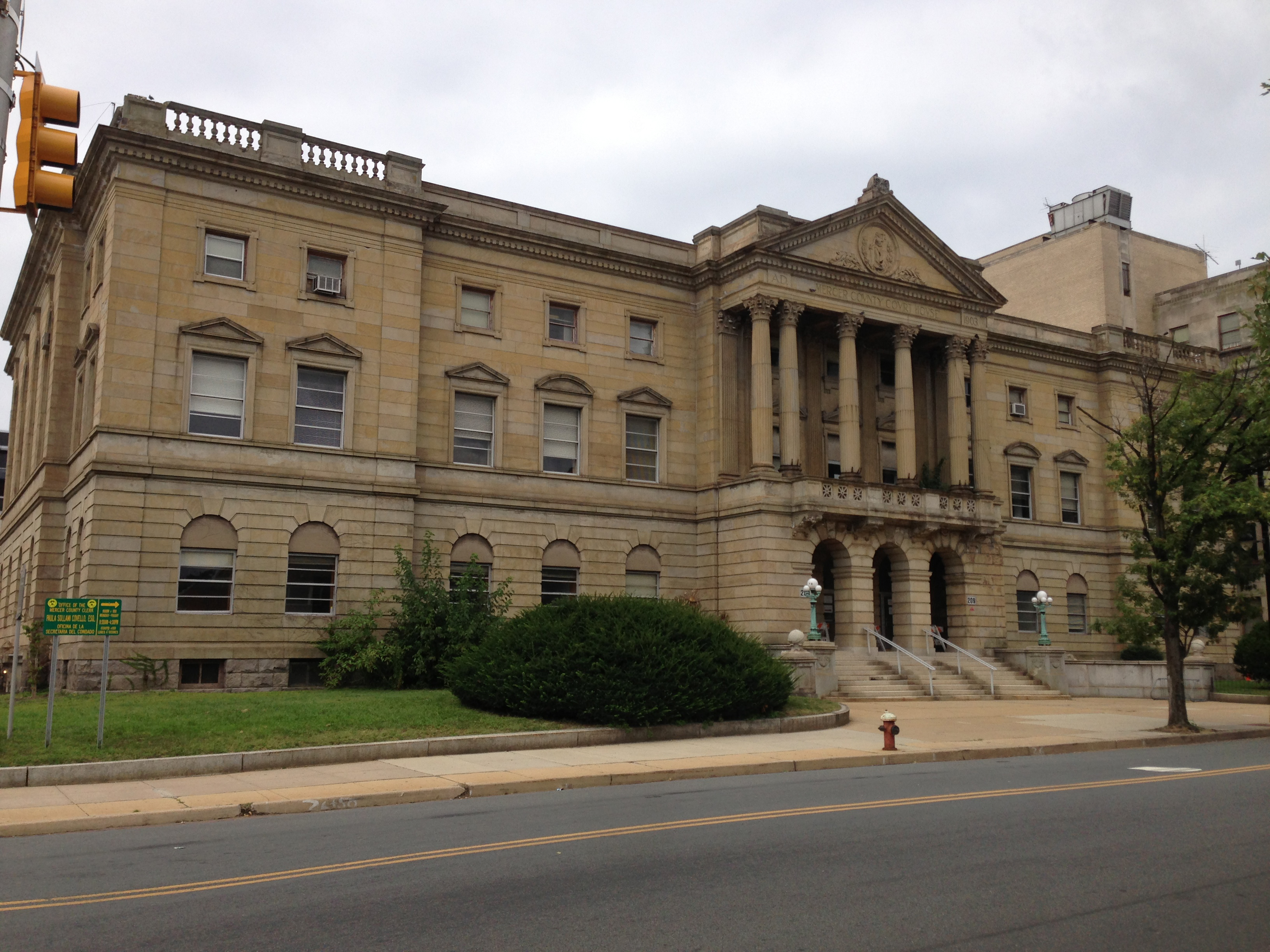 View of Mercer County Court House in Trenton, New Jersey from the east